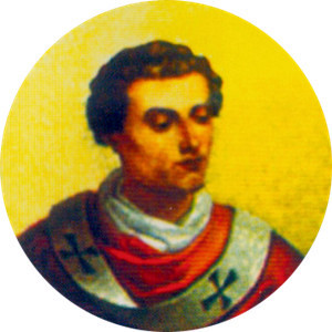 Portait of Pope Anastasius III in the Basilica of Saint Paul Outside the Walls, Rome